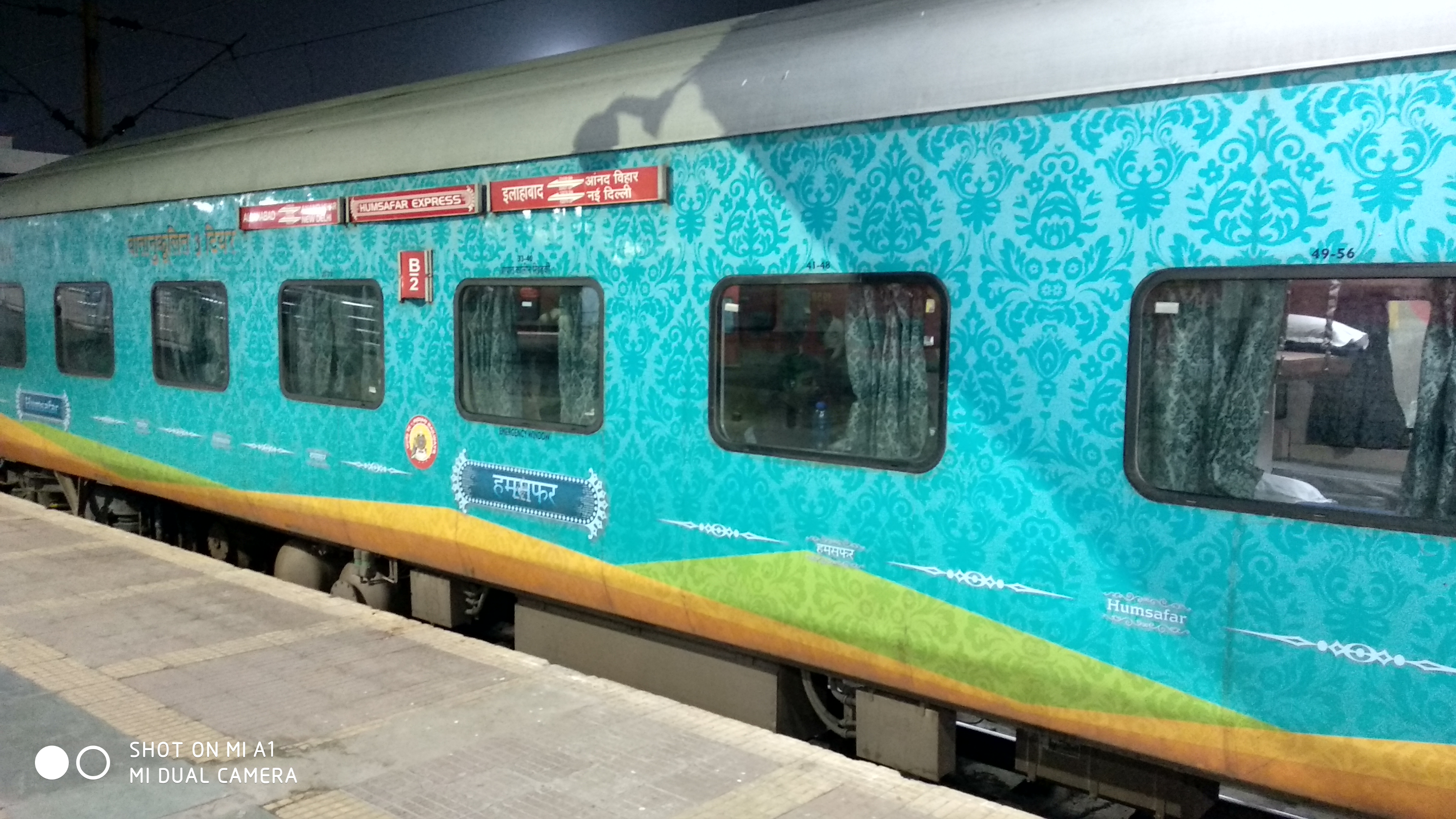 Picture of 12275 Allahabad New Delhi Humsafar Express